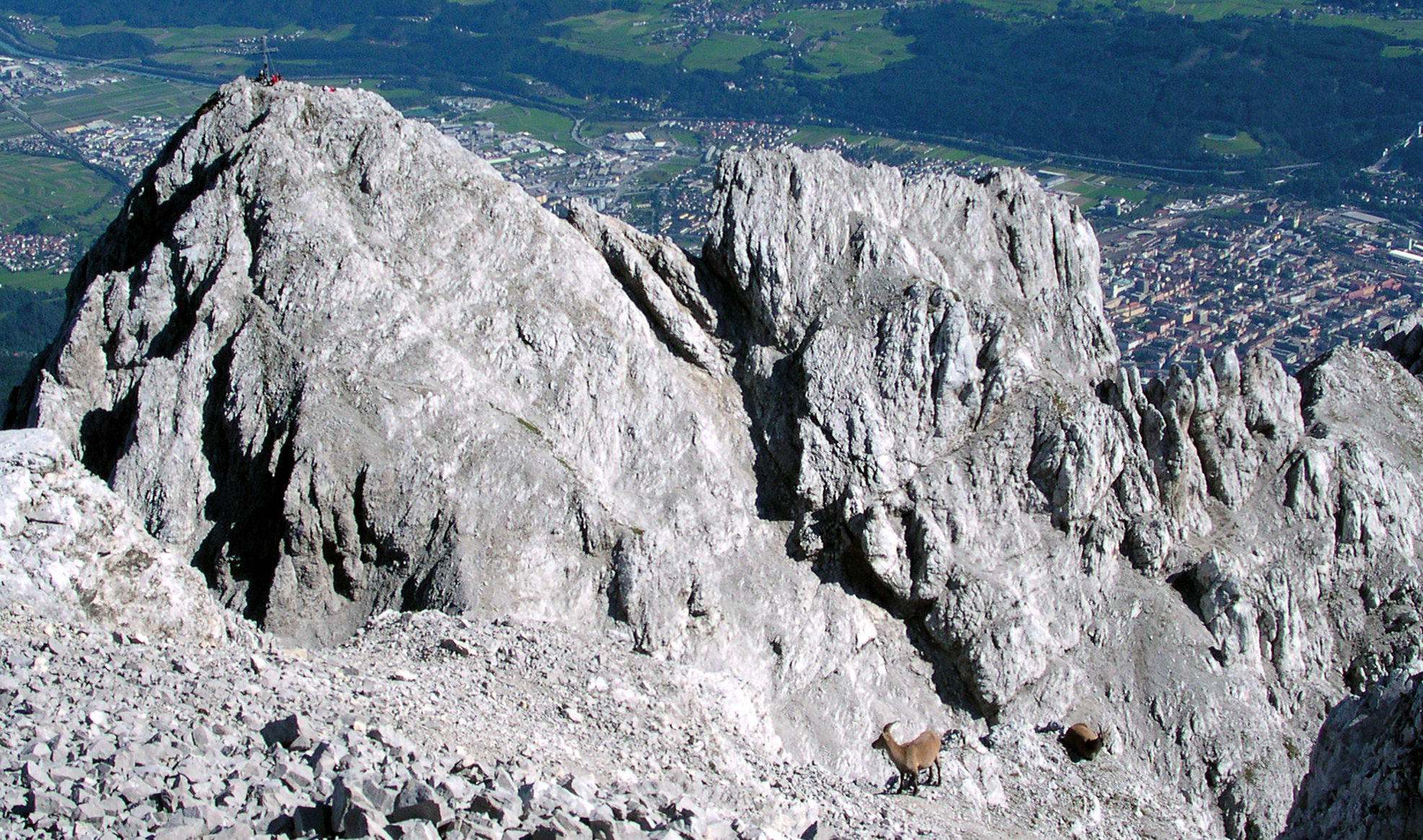 Vorderes Brandjoch seen from Hinteres Brandjoch. Innsbruck. Capricorns.